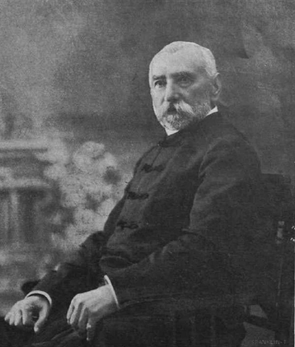 The bishop, poet István Fejes